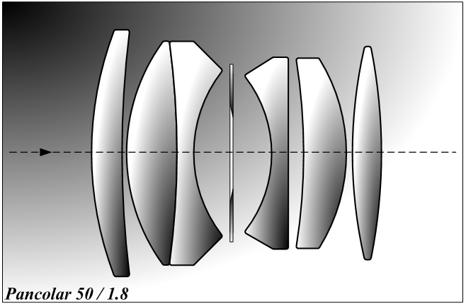 Pancolar lens.